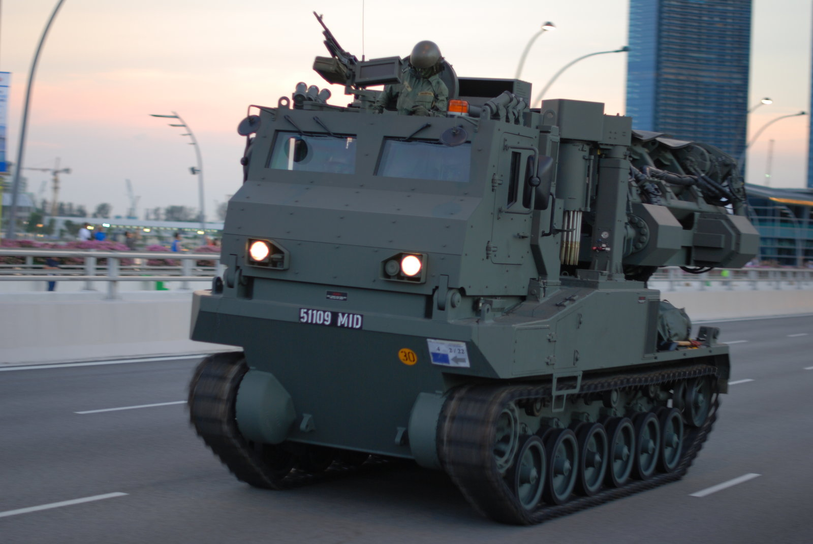 Trailblazer CMV, National Day Parade 2010 Combined Rehearsal 2.